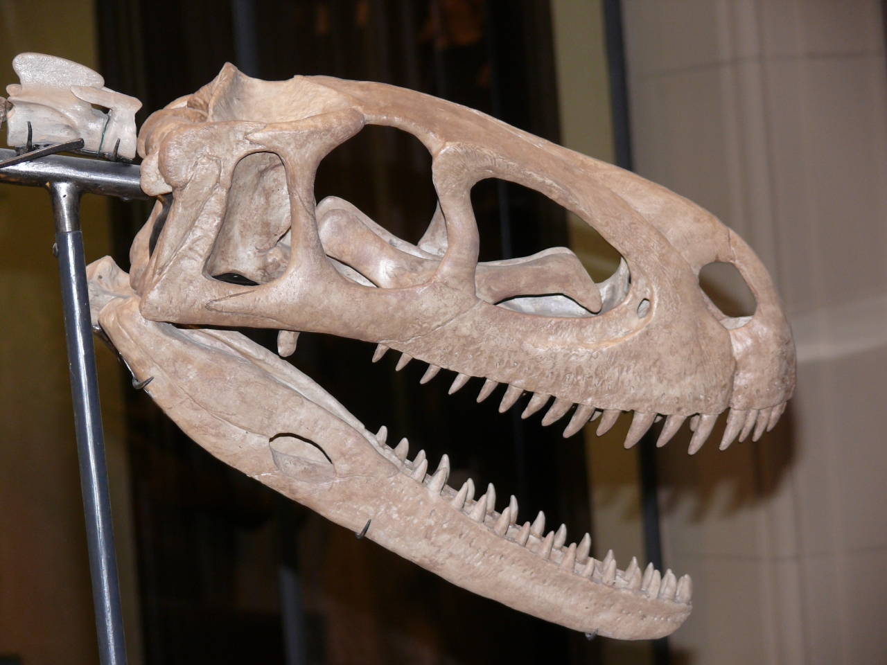 Skull of Elaphosaurus bambergi (note: skulls for this species have yet to be found)